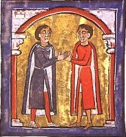 Liber Feudorum Ceritaniae